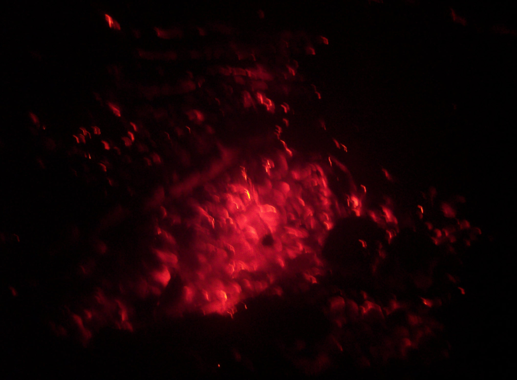 No-Flash Photo of the embers left over from a wood fire.